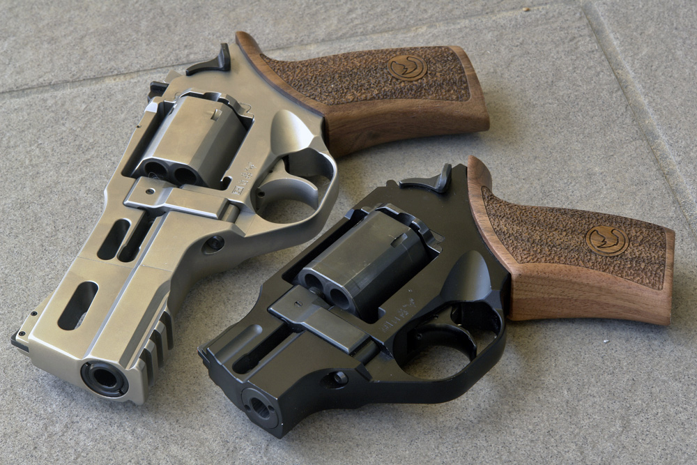 Chiappa Rhinos - 200DS and 40DS